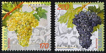 Stamps of Armenia representing two types of grapes: Voskehat (left) and Black Areni (right).